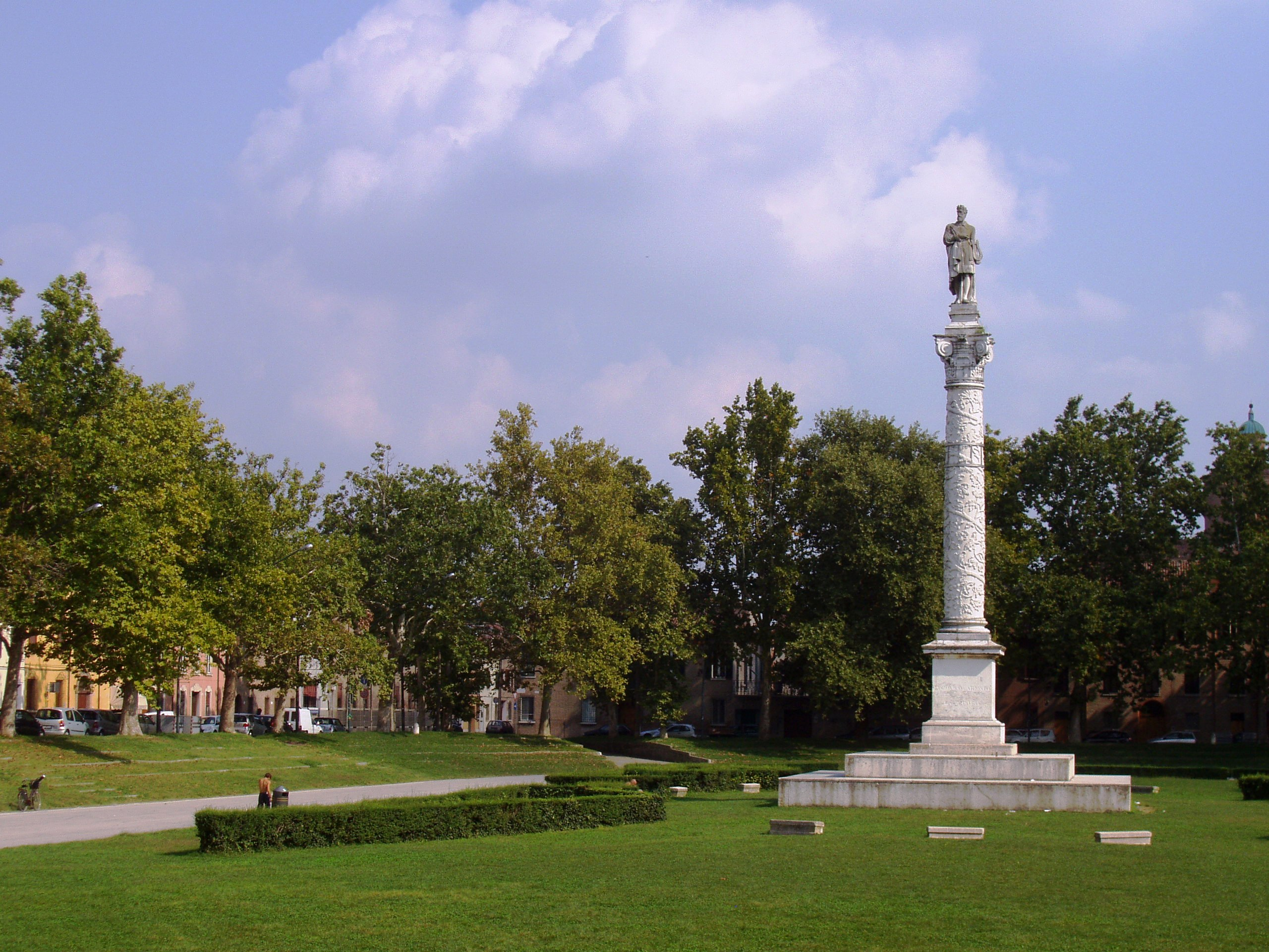 Ludovico Ariosto statue - Ferrara, Italy.